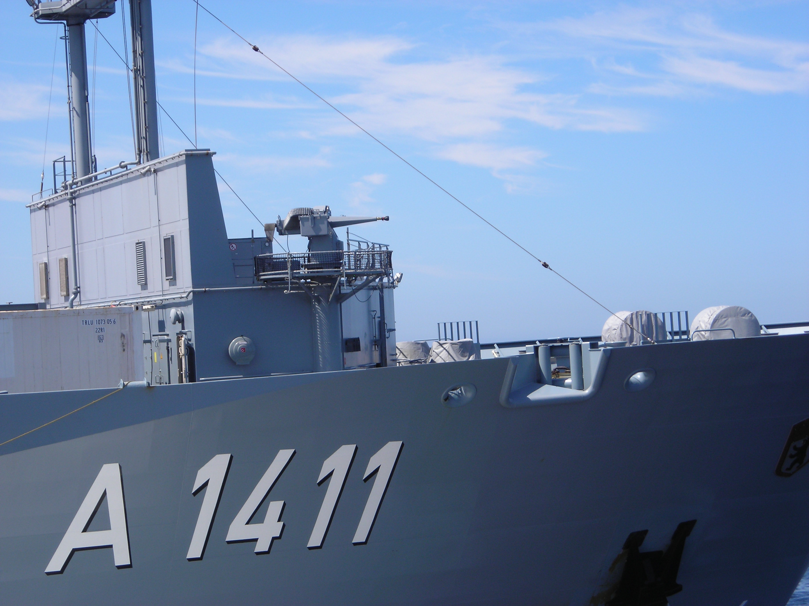 Light weight gun 27mm type "MLG-27" on the German naval supply ship Berlin